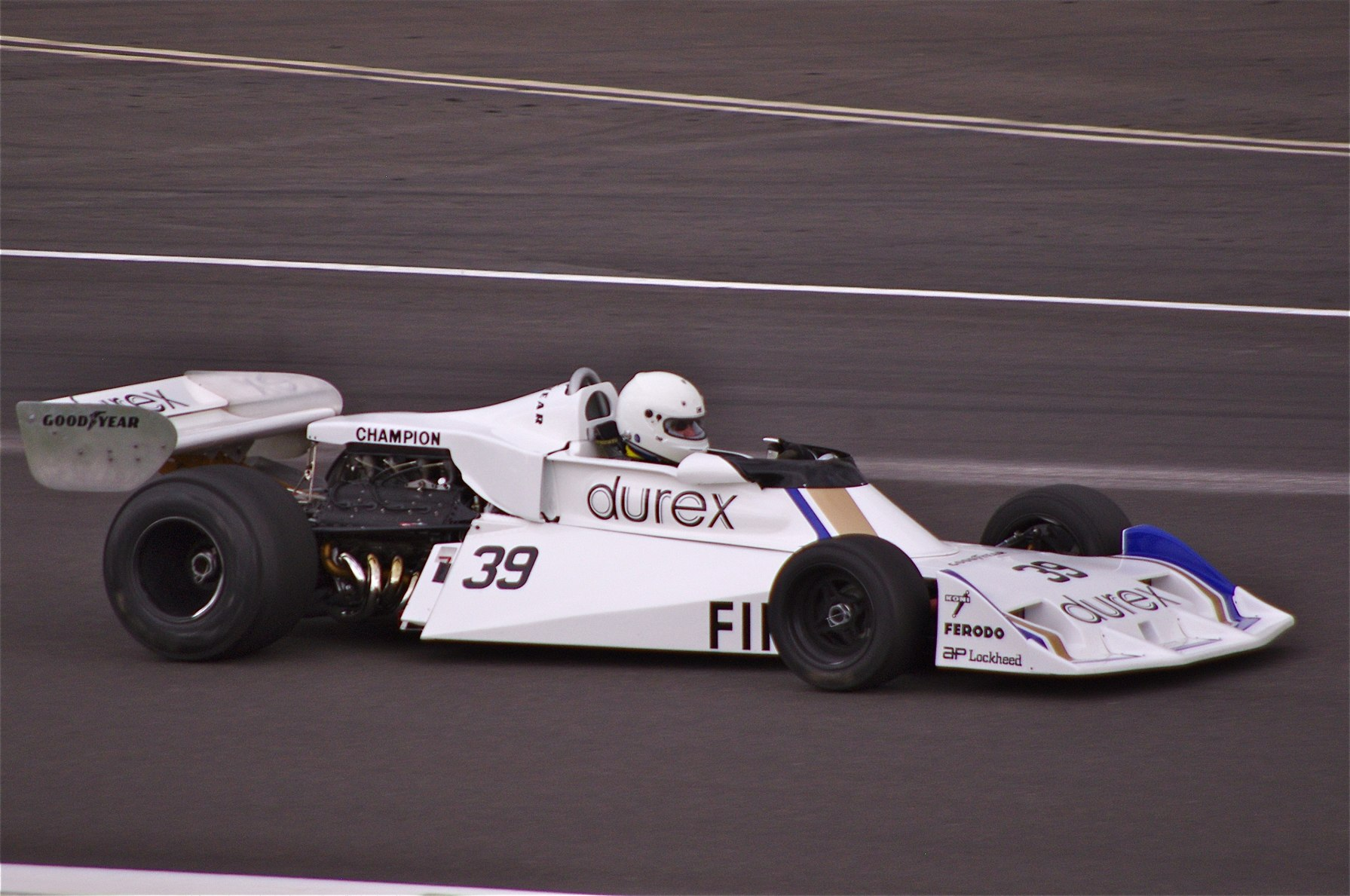 The Surtees TS19 at the 2011 Silverstone Classic race meeting.